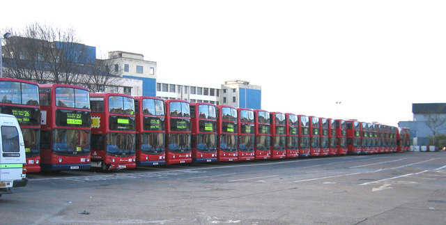 East London Bus garage, Waterden Lane This is on the site of the main Olympic Sports Arenas.The Company will be closing in its present form in late 2007.